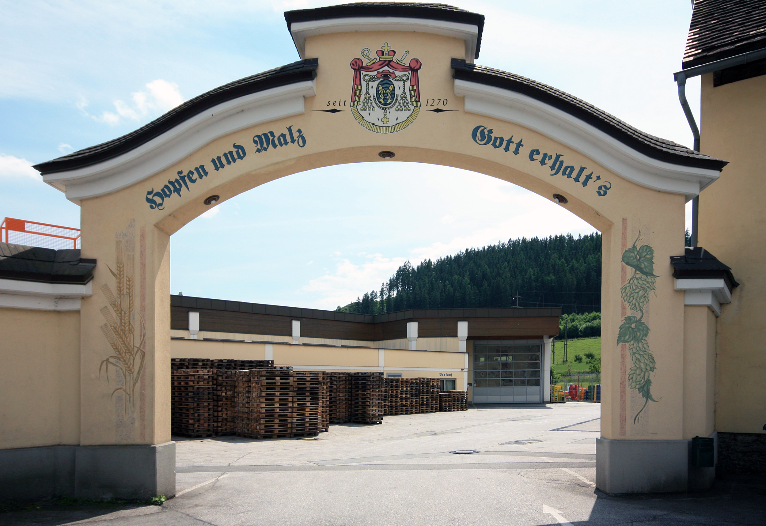 Entrance to the brewery Hirt at Micheldorf, Carinthia